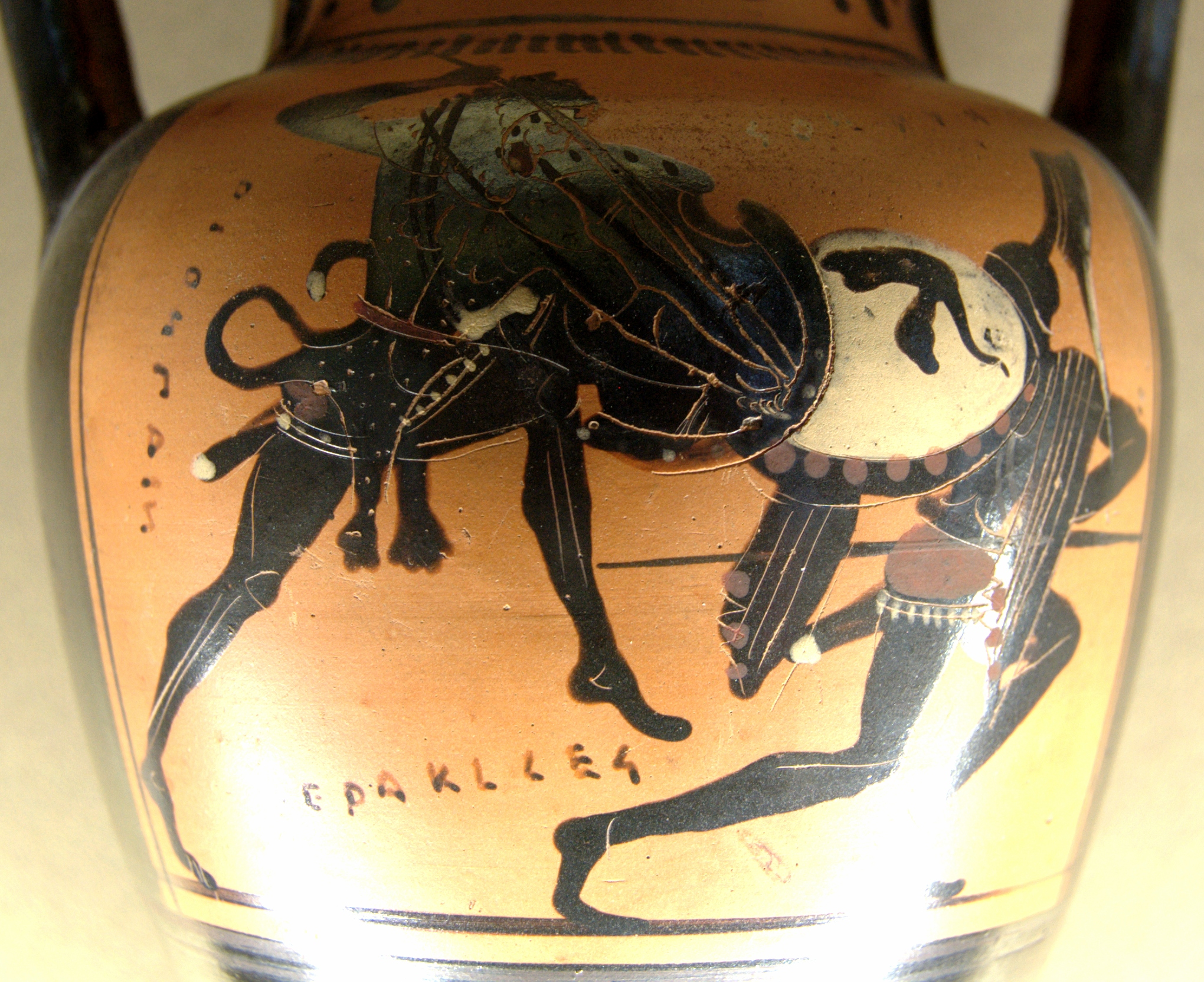 Heracles fighting Cycnus. Side A from an Attic black-figured neck-amphora. From Nola